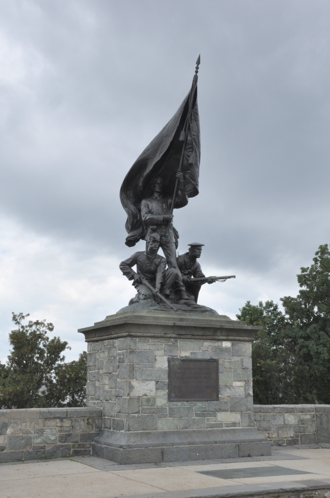 A photograph of the American Civil War memorial in Bell Rock Memorial Park in Malden, Massachusetts